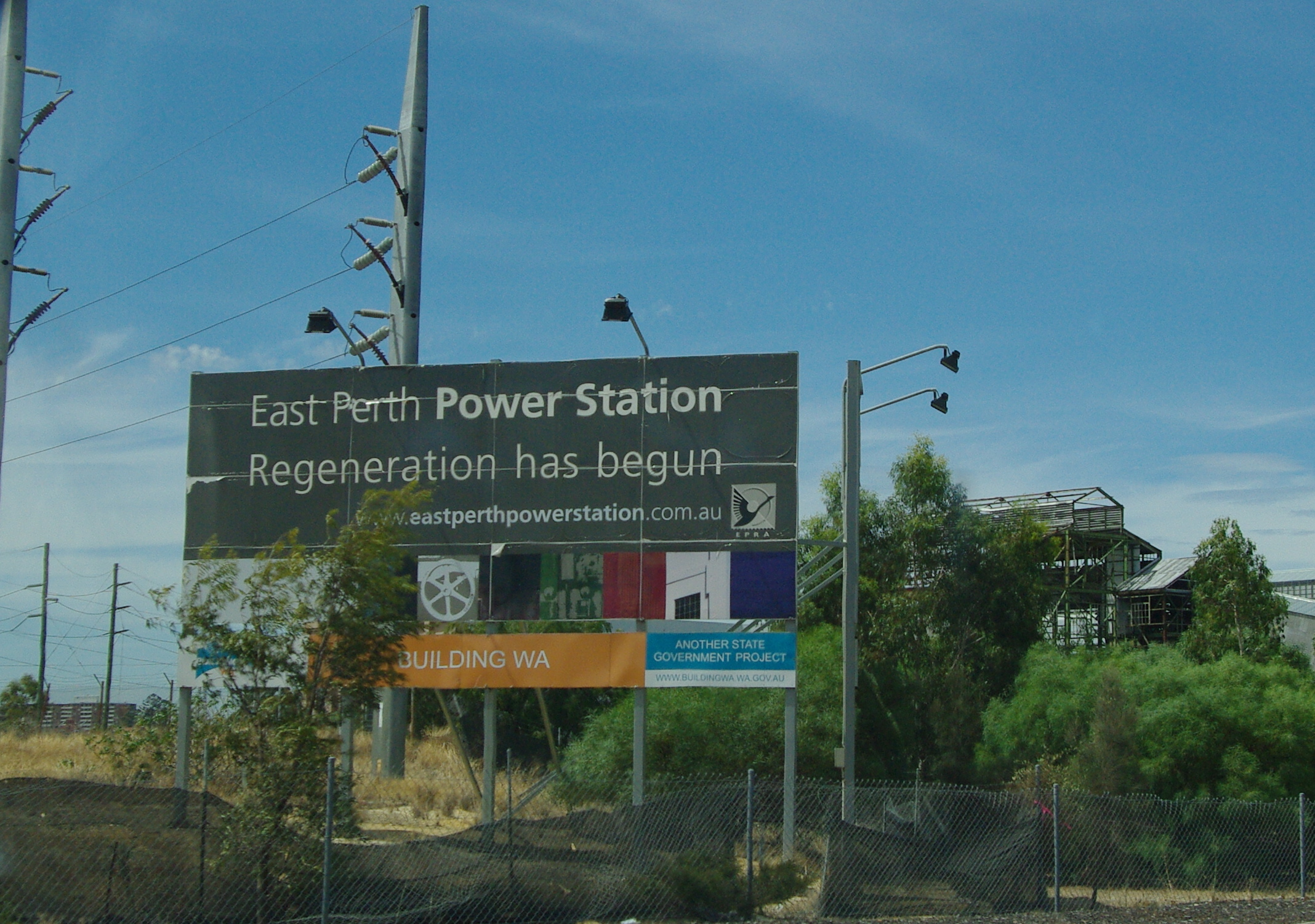 East Perth Power Station, East Perth, Western Australia - project since canclled